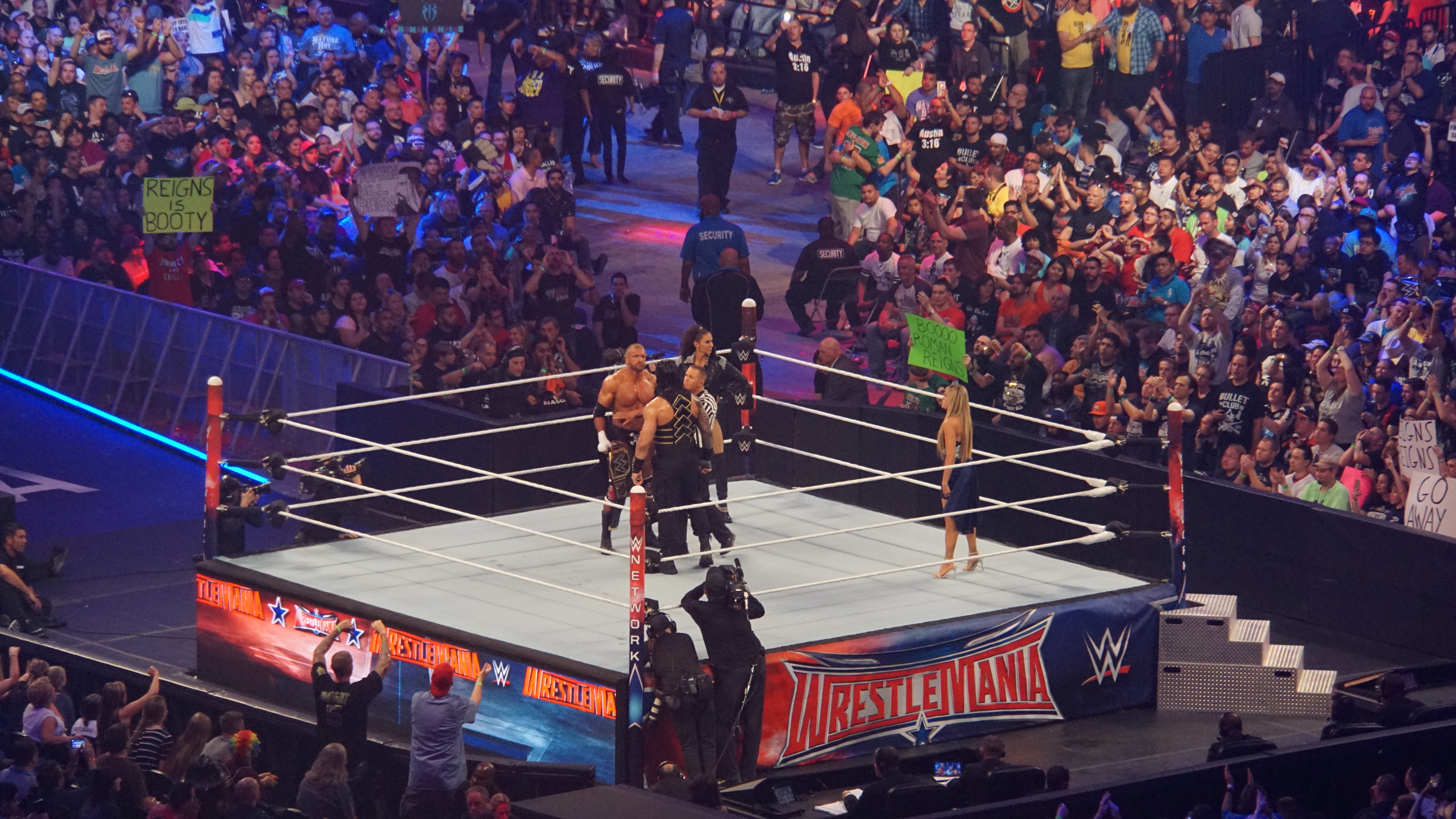 WrestleMania 32 was the thirty-second annual WrestleMania professional wrestling pay-per-view (PPV) event produced by WWE. It took place on April 3, 2016, at AT&T Stadium in Arlington, Texas. Twelve matches were contested on the card (with three matches occurring on the WrestleMania Kickoff pre-show - two airing live on the USA Network, which televised the second hour of the pre-show). Roman Reigns def. (pin) Triple H (c) (in 27:10) For : WWE World Heavyweight Championship (title change) Rating : ***1/4